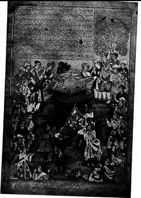 Vana parwa story tell by brihadashwa sage to yudhisthira